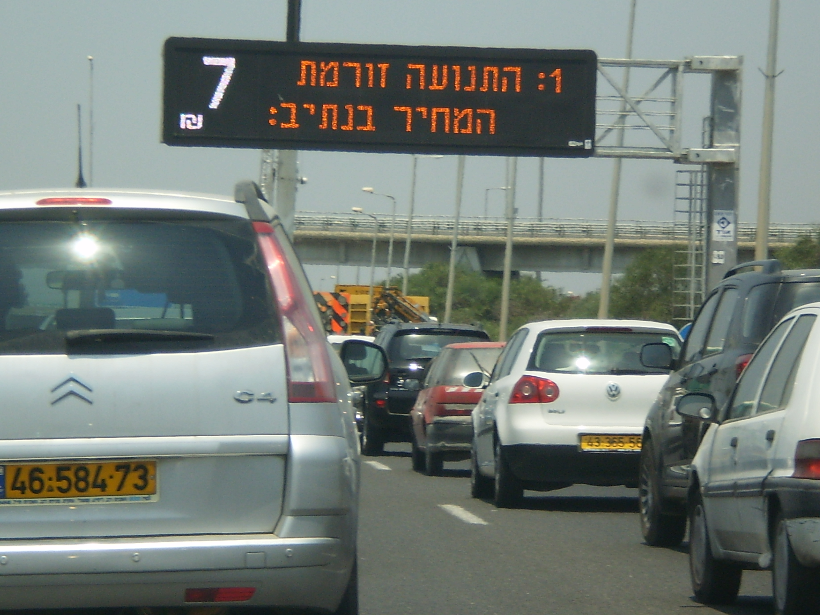 Information sign in the enterance to the fast lane of road A1